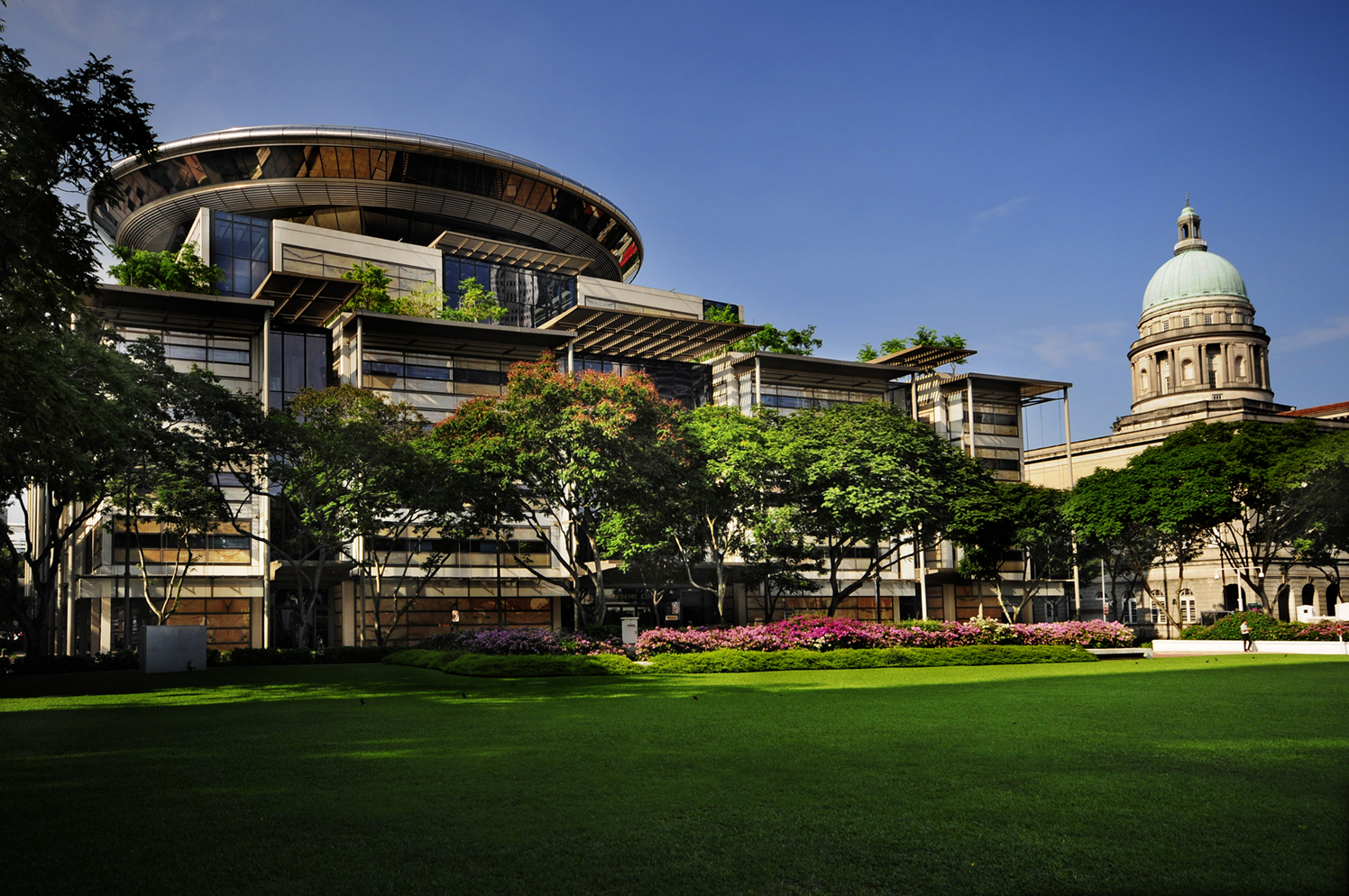 The New Supreme Court of Singapore on the left and the Old Supreme Court on the right